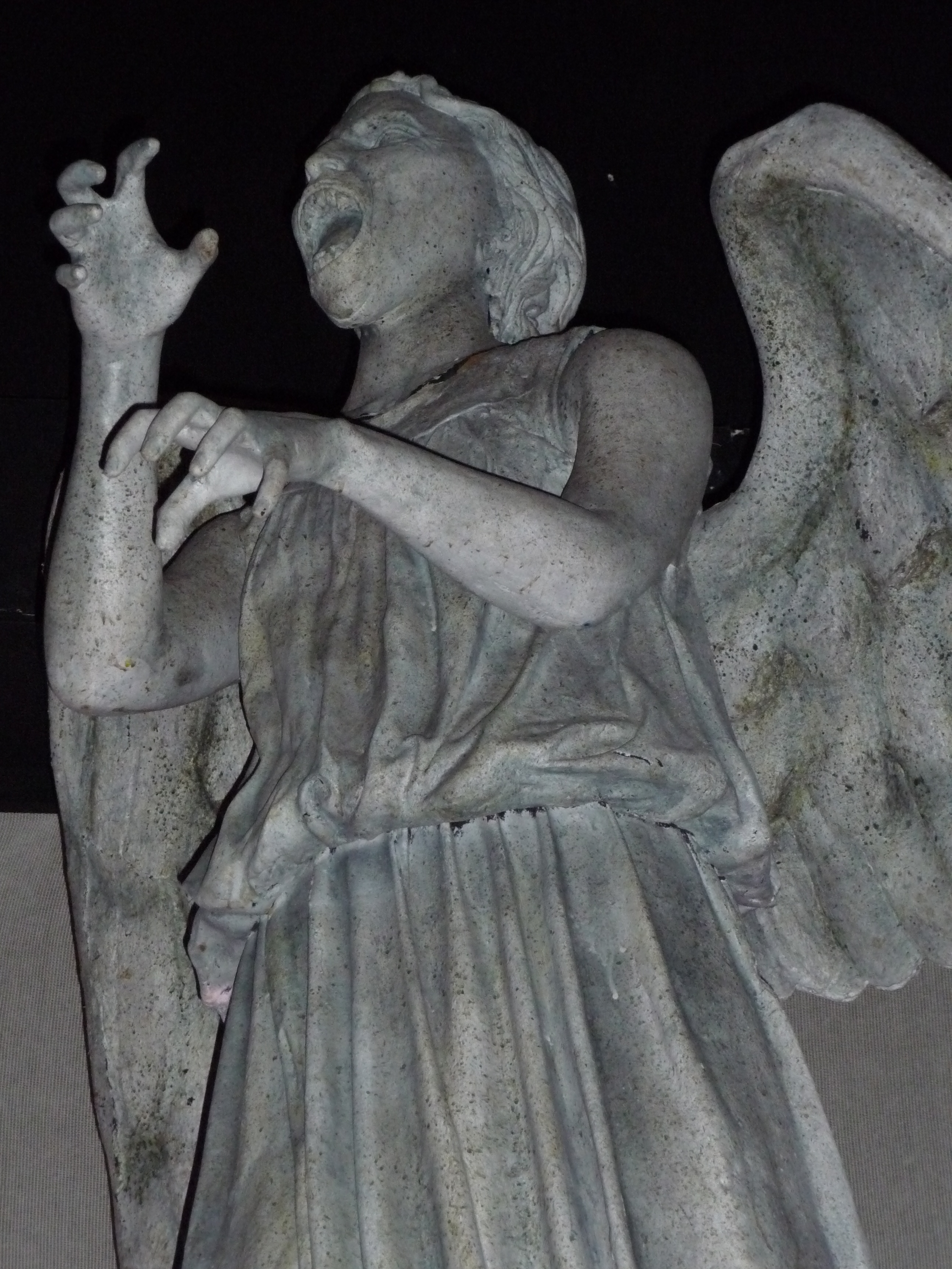 A weaping Angel at the 2010 Dr Who exhibition